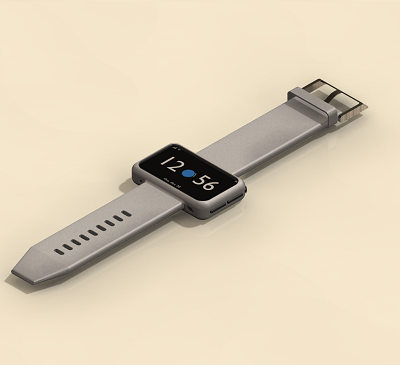 Early concept of the Neptune Pine smartwatch.